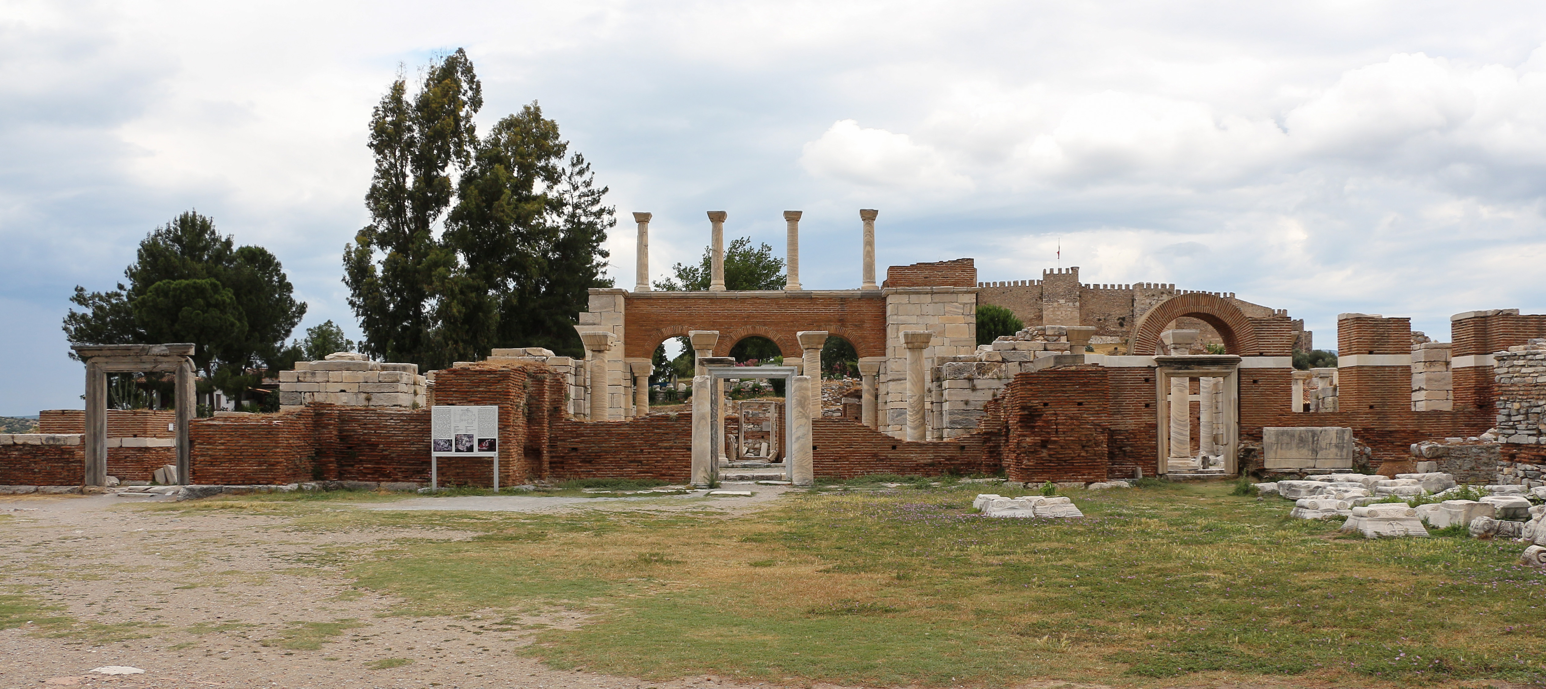 Basilica of St. John, Ephesus, Turkey